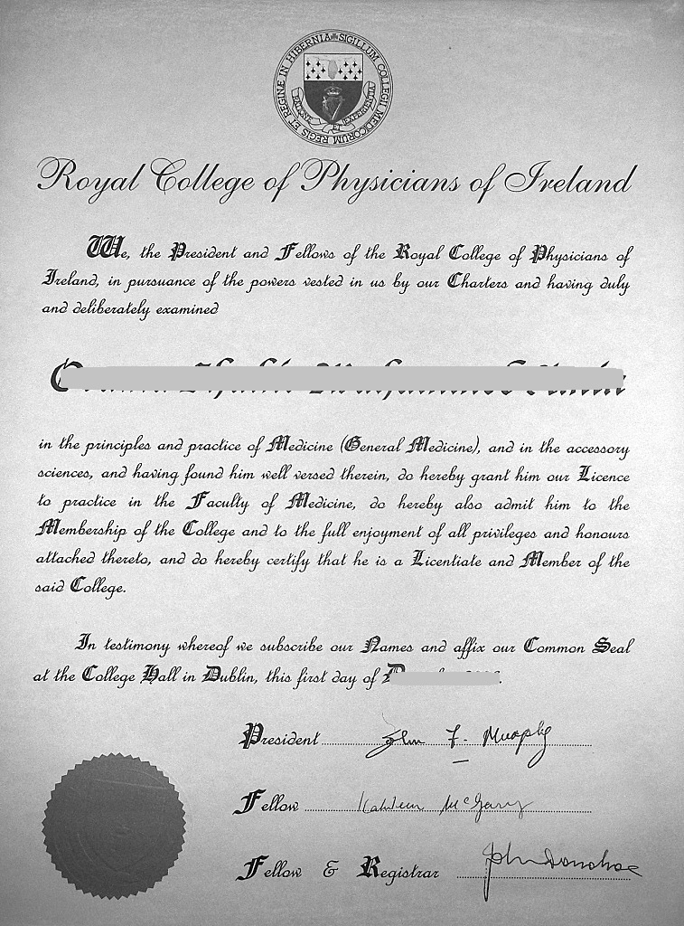 This is a scanned copy of a Membership Diploma of the Royal College of Physicians of Ireland, MRCPI.